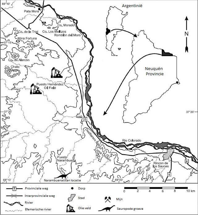 Location map where the holotype of Narambuenatitan palomoi was found.